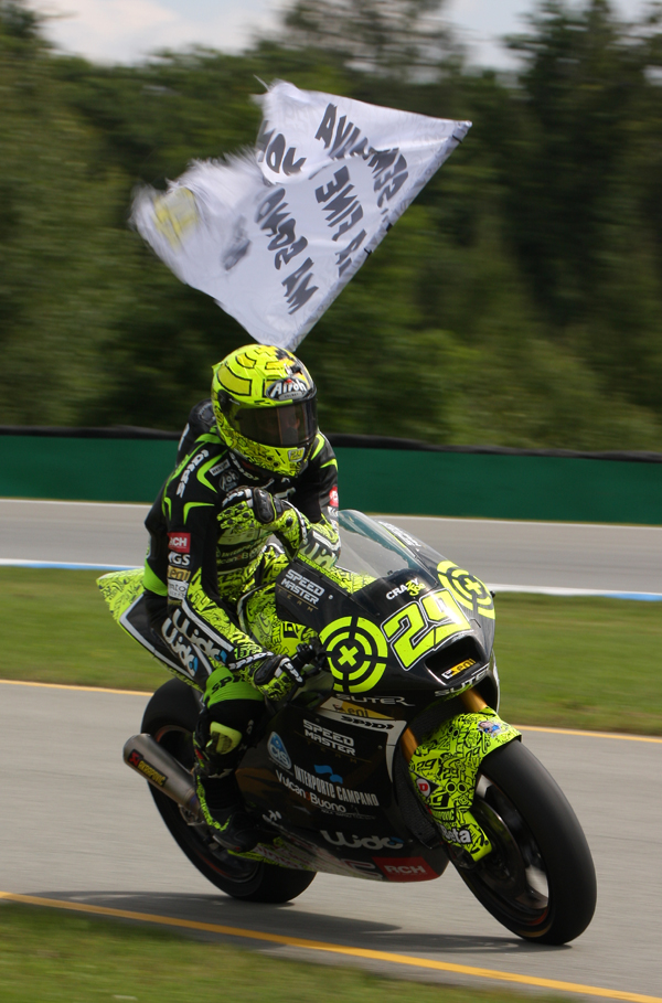 Andrea Iannone 2011 Brno